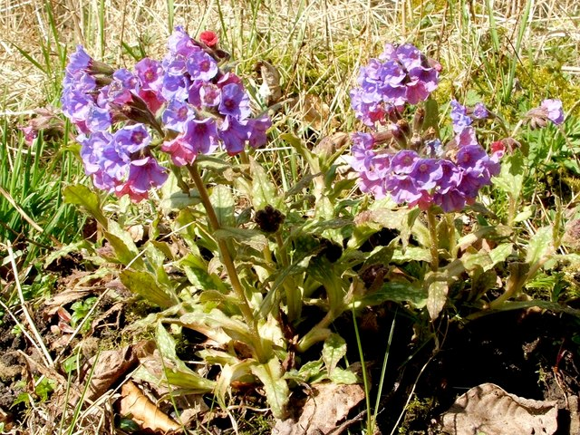 Lungwort (Pulmonaria officinalis). This is an introduced rather than a native species (although there are two rare native species, Unspotted and Narrow Lungwort), and it is often found as a "garden escape". The plants were growing beside a footpath: 1213573. Many plants have the specific name "officinalis", indicating a former medicinal use, the Medieval Latin word "officina" referring, at least in a later development of its meaning, to an apothecary's pharmacy. In the case of Lungwort, the blotching of the leaves was thought to resemble that of diseased lungs, and it was therefore believed that the plant would be effective in treating such diseases.